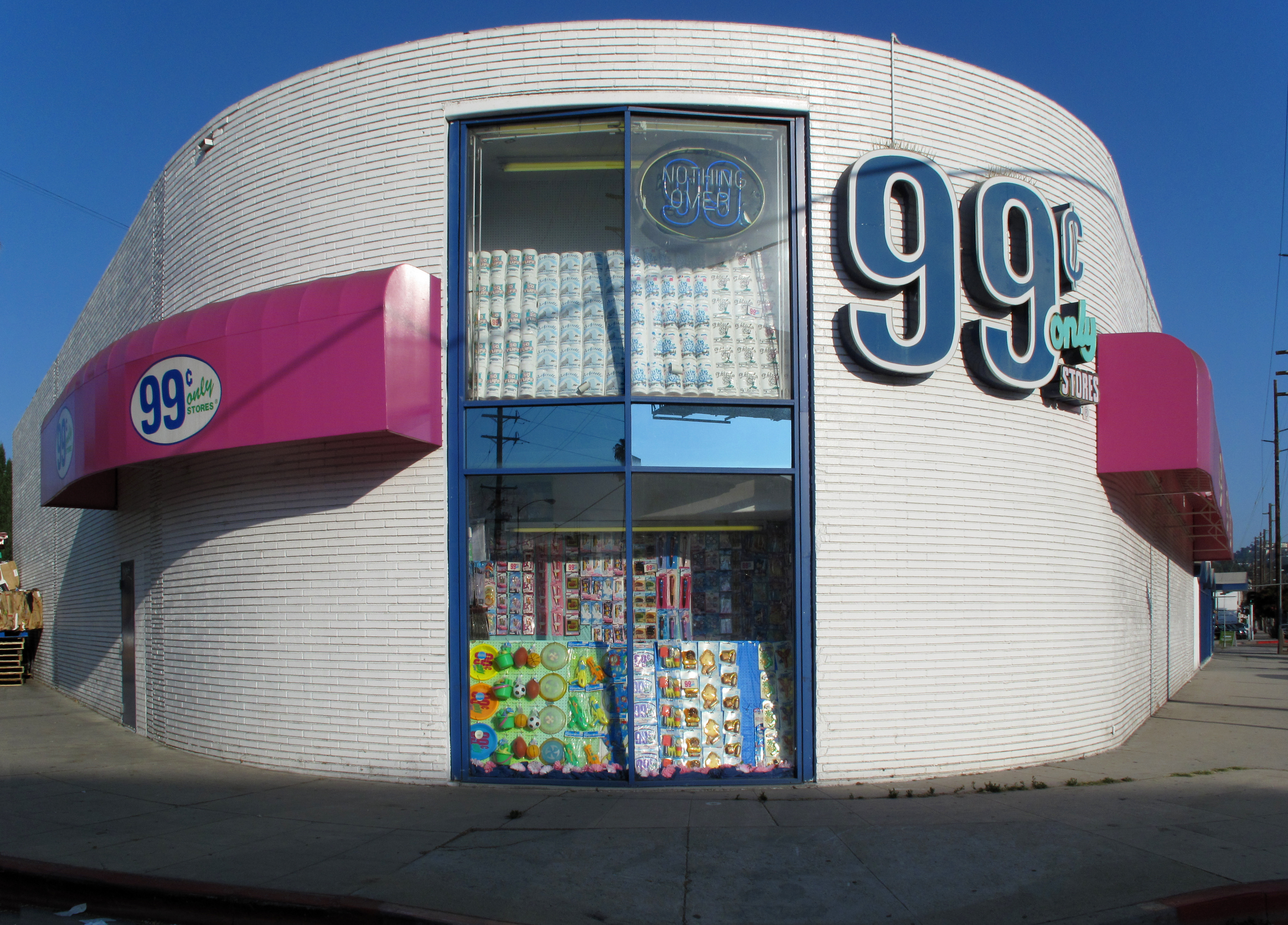 A show window of the 99 Cents Only discount store, North Hollywood, California. The company's signature color scheme of magenta, blue, green and white is shown on the awning. Like all the other stores in the chain, the maximum price of the products in the store is 99.99 cents US.